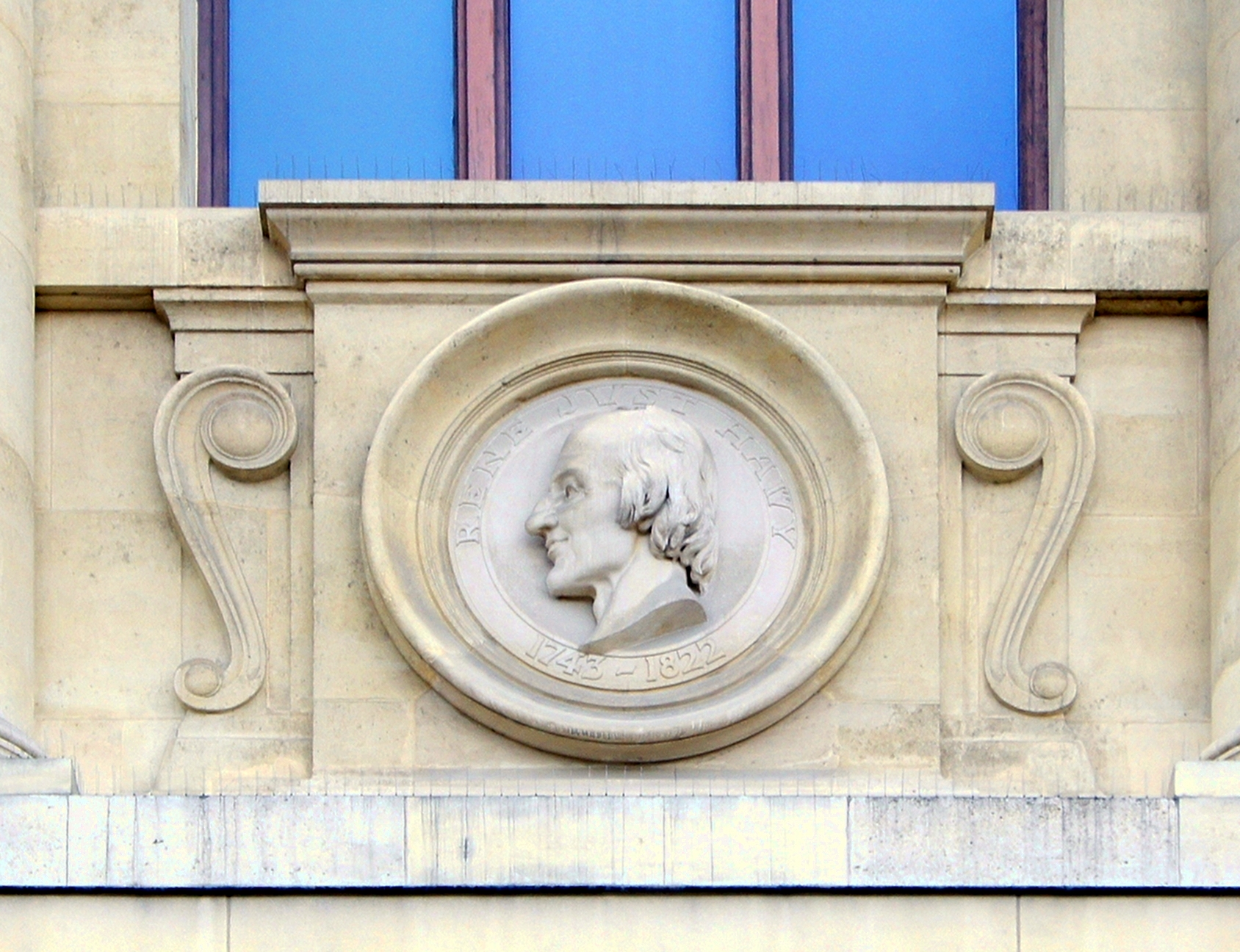 René-Just Haüy. Fourth medallion (right) on the façade of the grande galerie de l'Évolution, in the Jardin des plantes, in Paris.